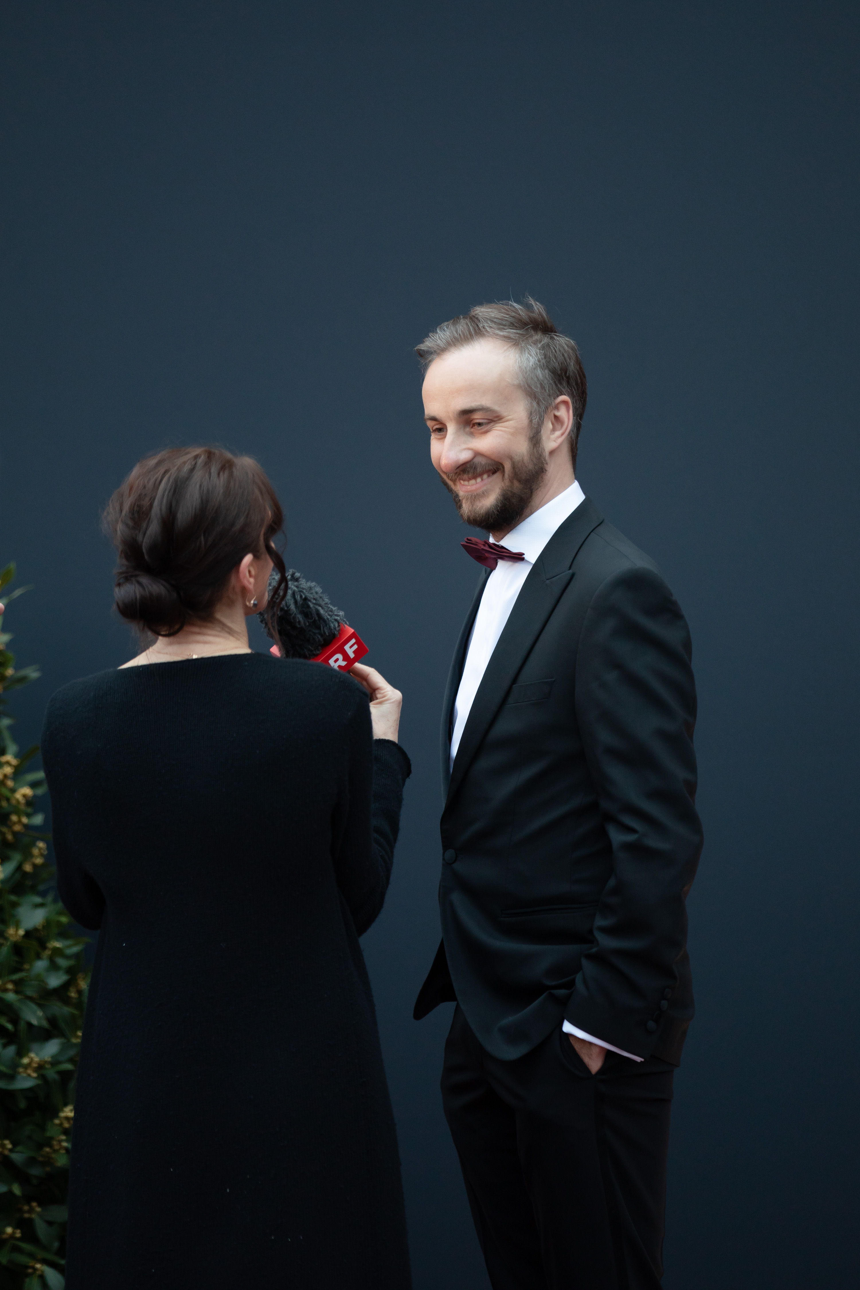 Jan Böhmermann on the red carpet of the Romy TV awards 2018 at Hofburg Palace in Vienna, Austria.